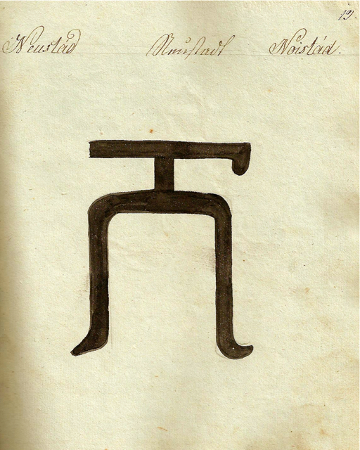 Cattle brand of Neustadt/Noiștat/Újvaros